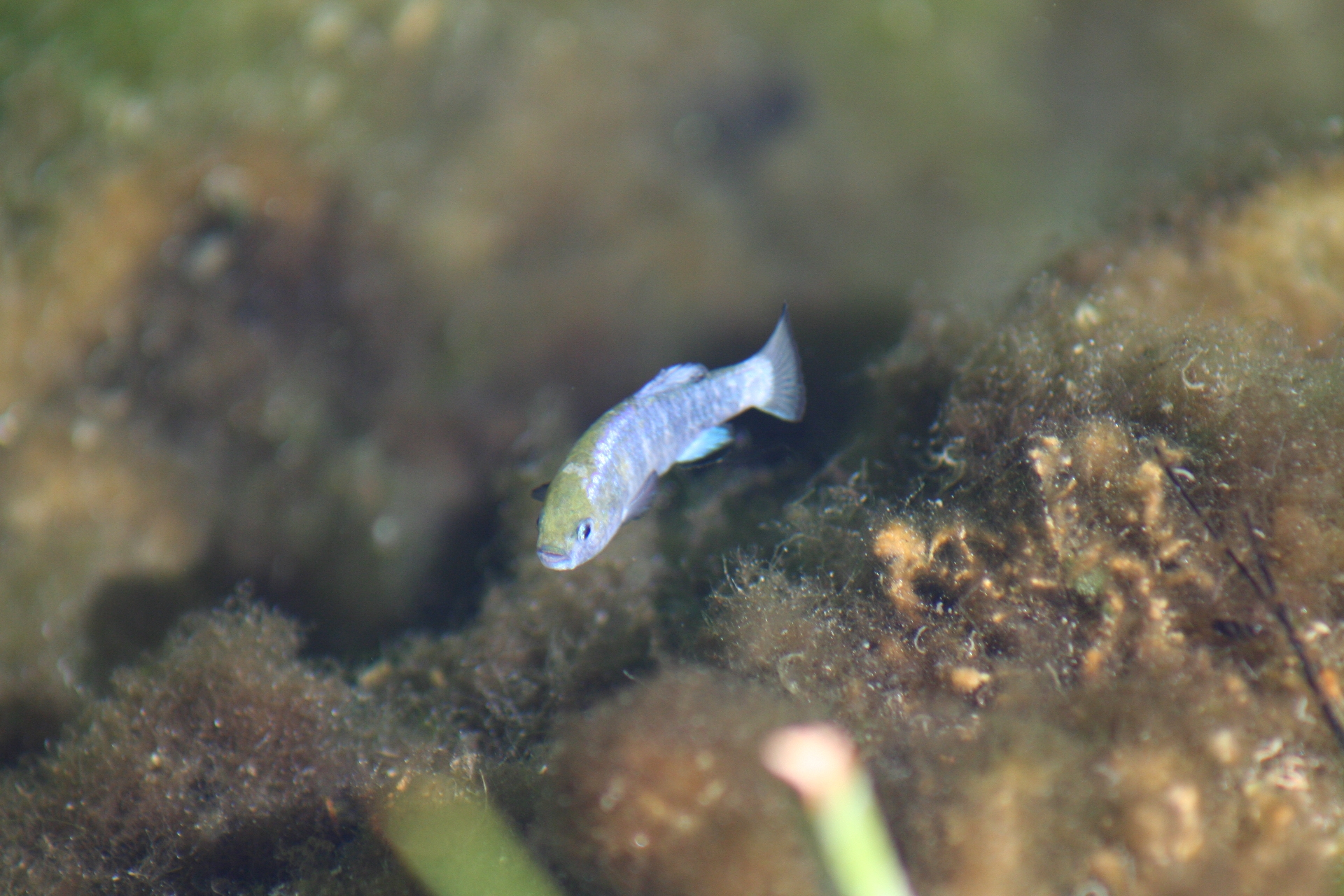 An endangered Ash Meadows Amargosa pupfish swims in King's Pool, along the Point of Rocks Boardwalk, in Ash Meadows National Wildlife Refuge in Nevada. (USFWS)